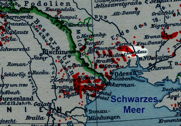 Landau (Schyrokolaniwka) on the east bank of the Berezan River